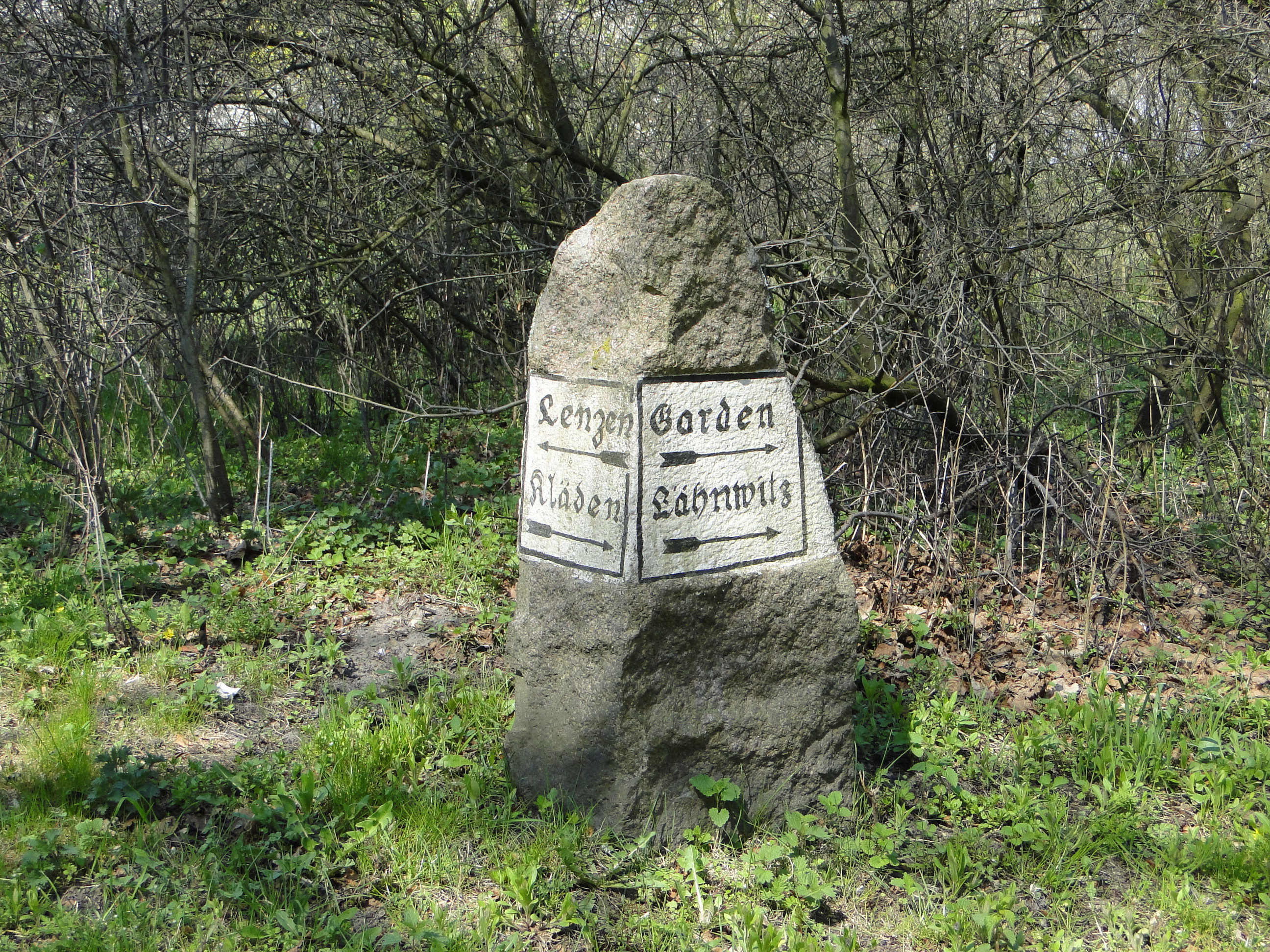 Directional stone in/near Garder Mühle, district Rostock, Mecklenburg-Vorpommern, Germany